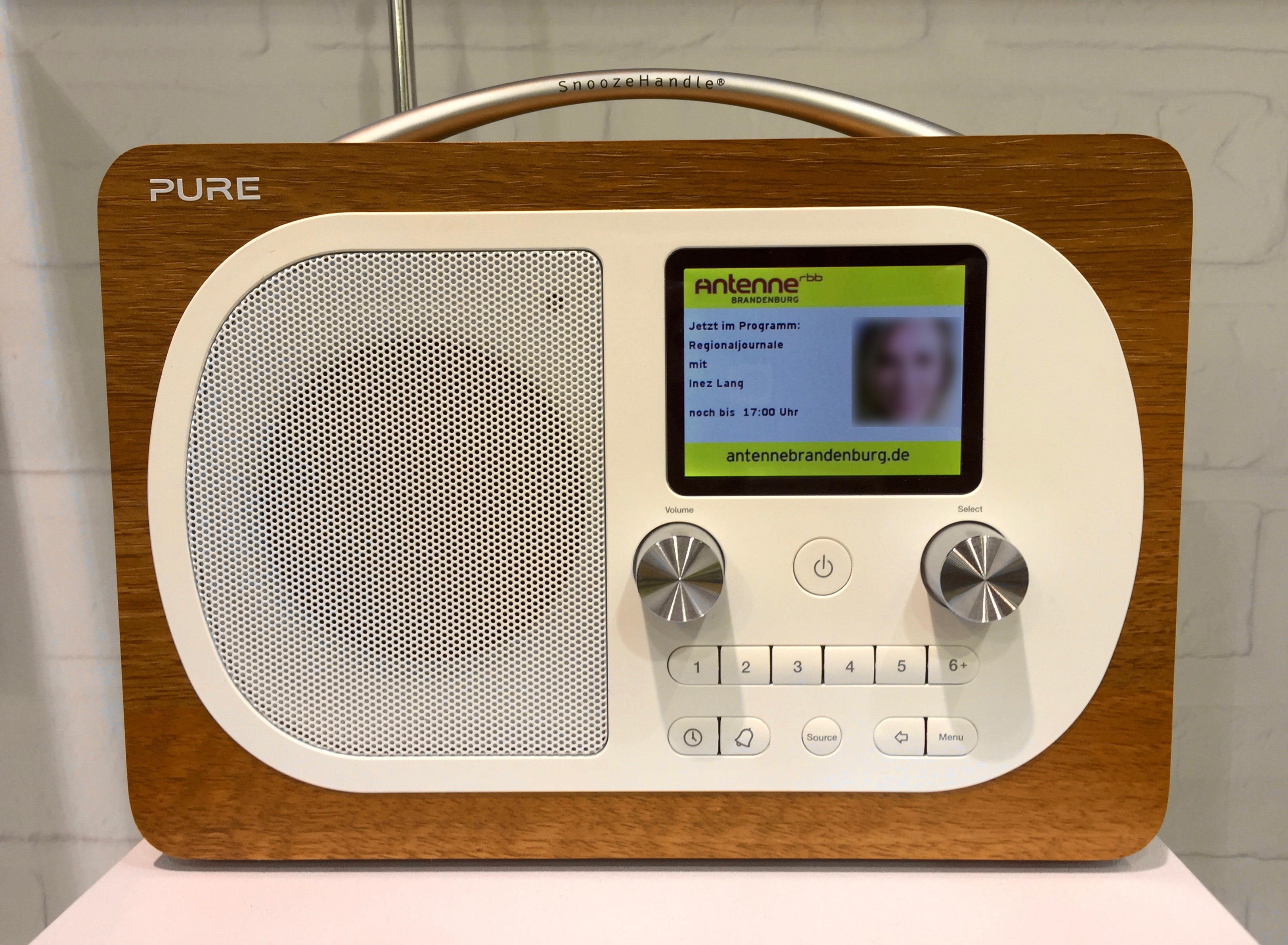 DAB radio from Pure